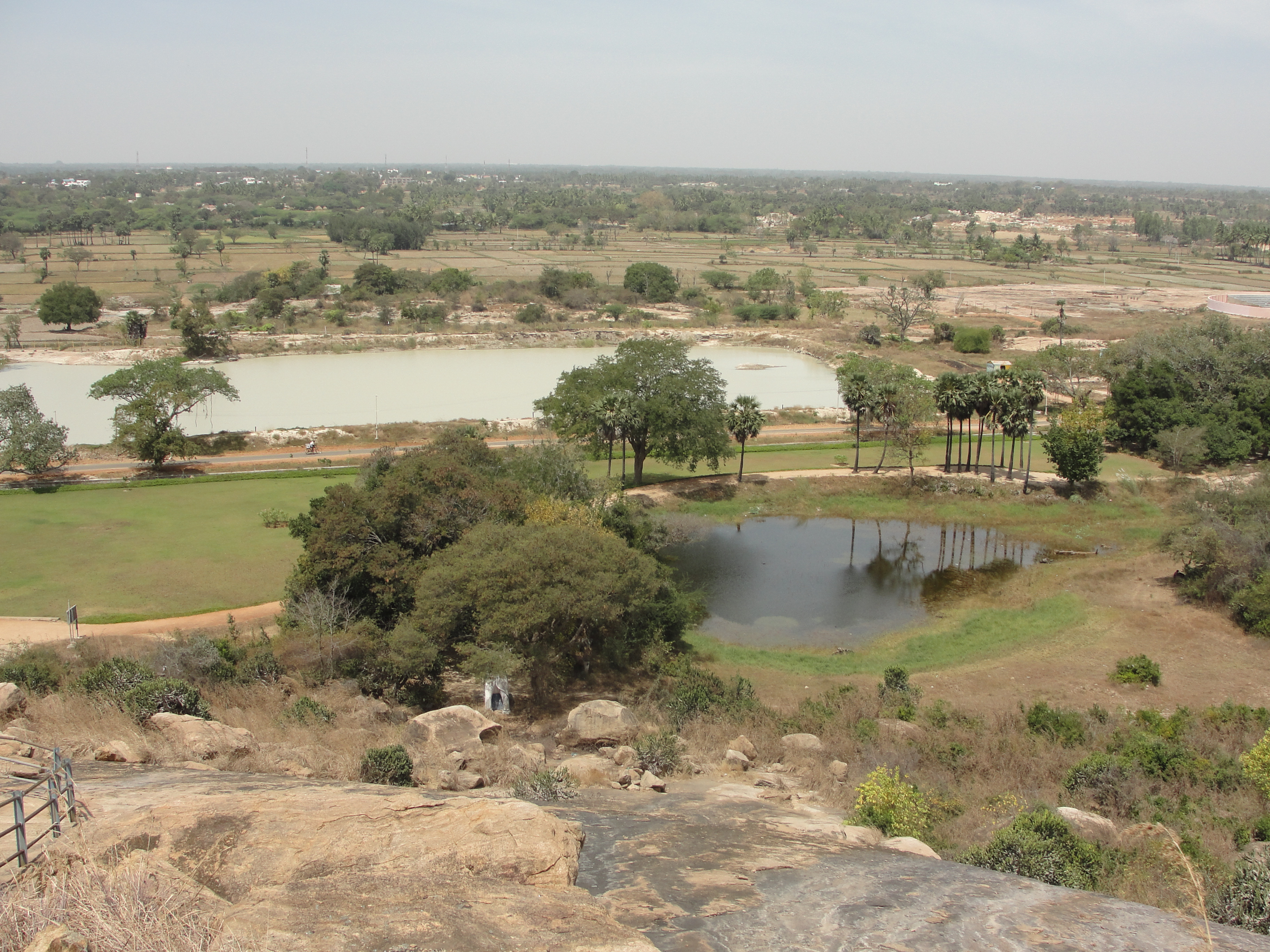 A aerial view of Chithannavasal plain